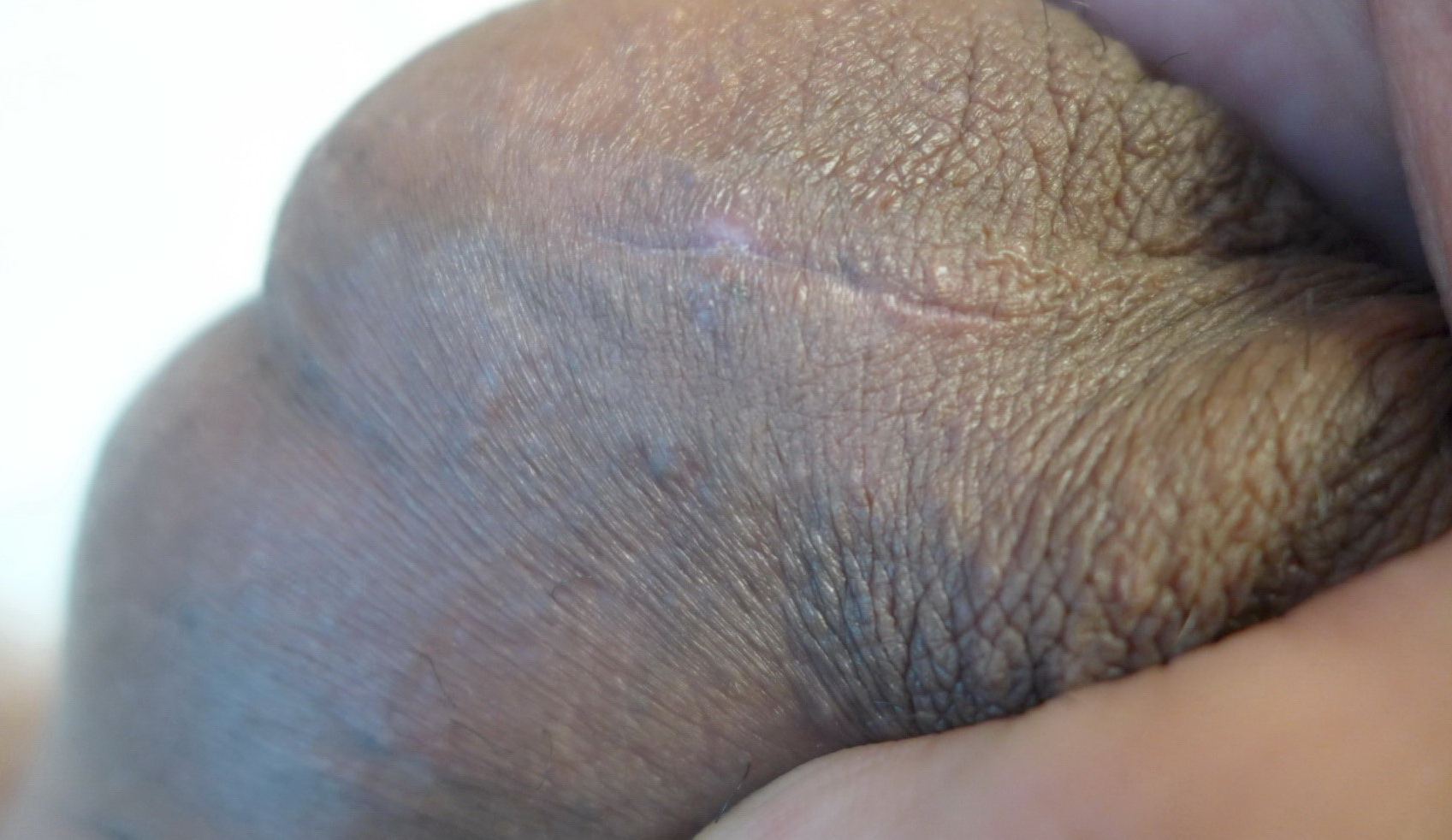 vesectomy after 14 days